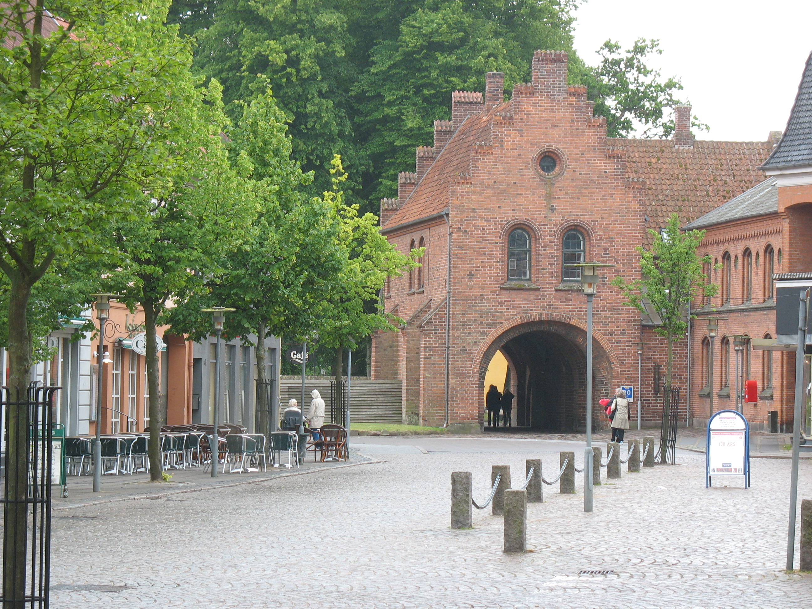 The old monastery gate "Klosterporten" in the town "Sorø" located in West Zealand, east Denmark.